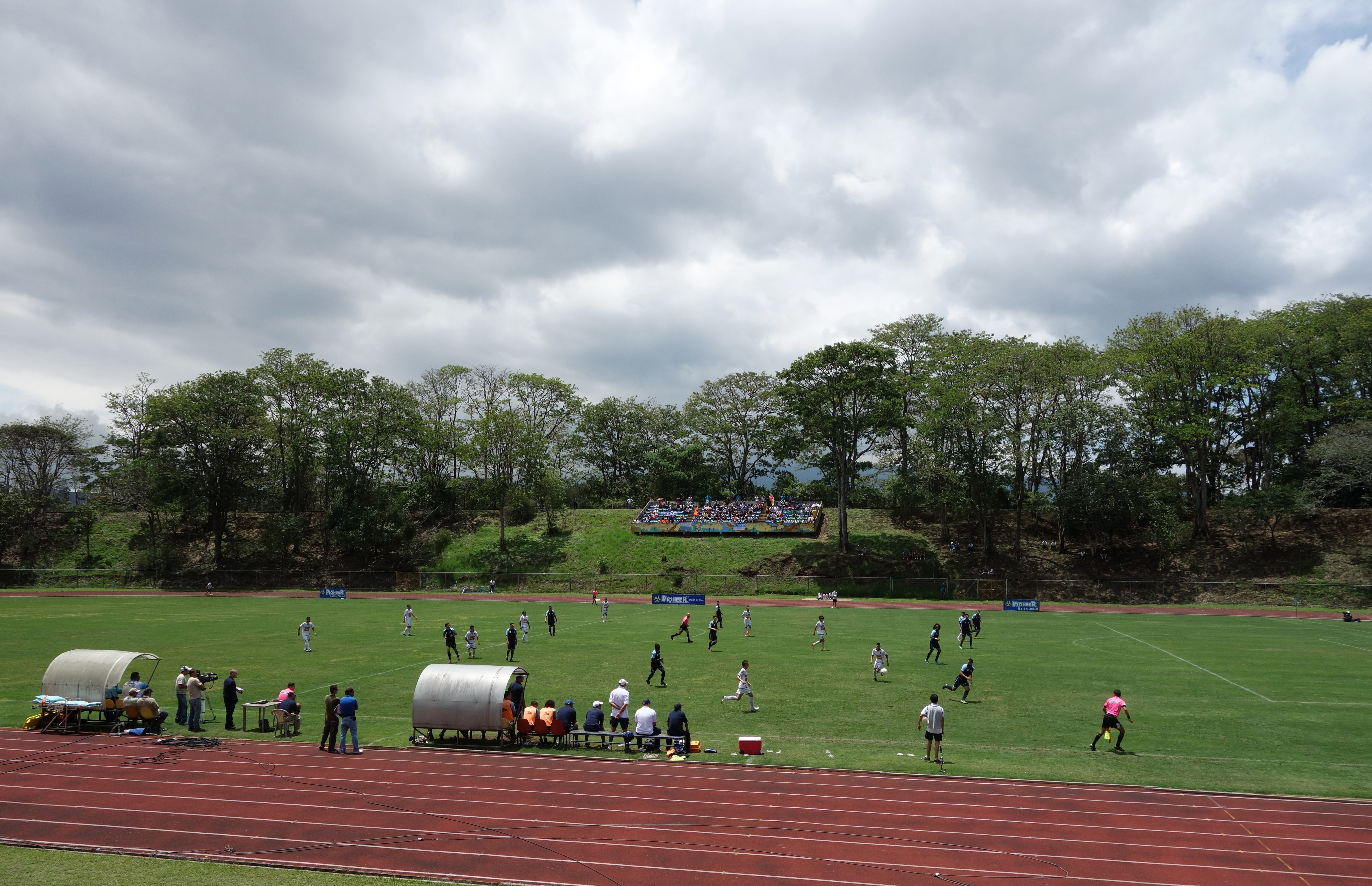 Estadio Ecológico in Montes de Oca in Costa Rica during the first final of Liga de Ascenso Verano 2013 between CF Universidad de Costa Rica and AS Puma Generaleña